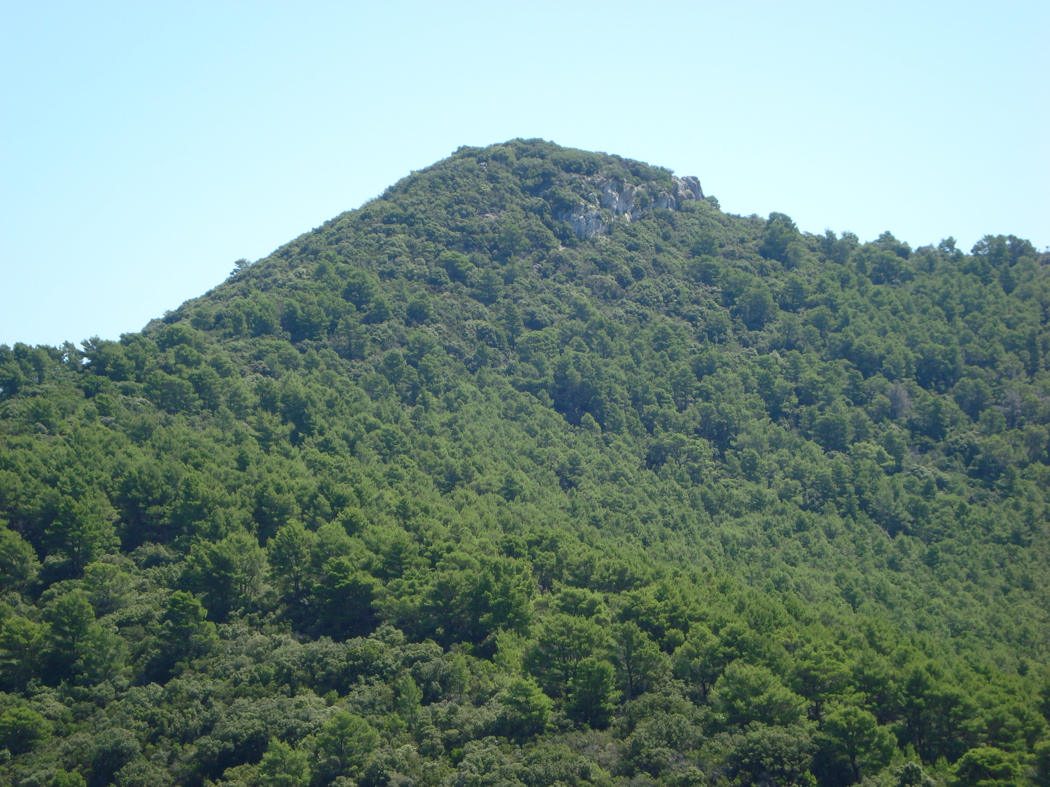 Bijeđ, the hill where Slavs have defeated roman inhabitants from Polače in 11th cenury